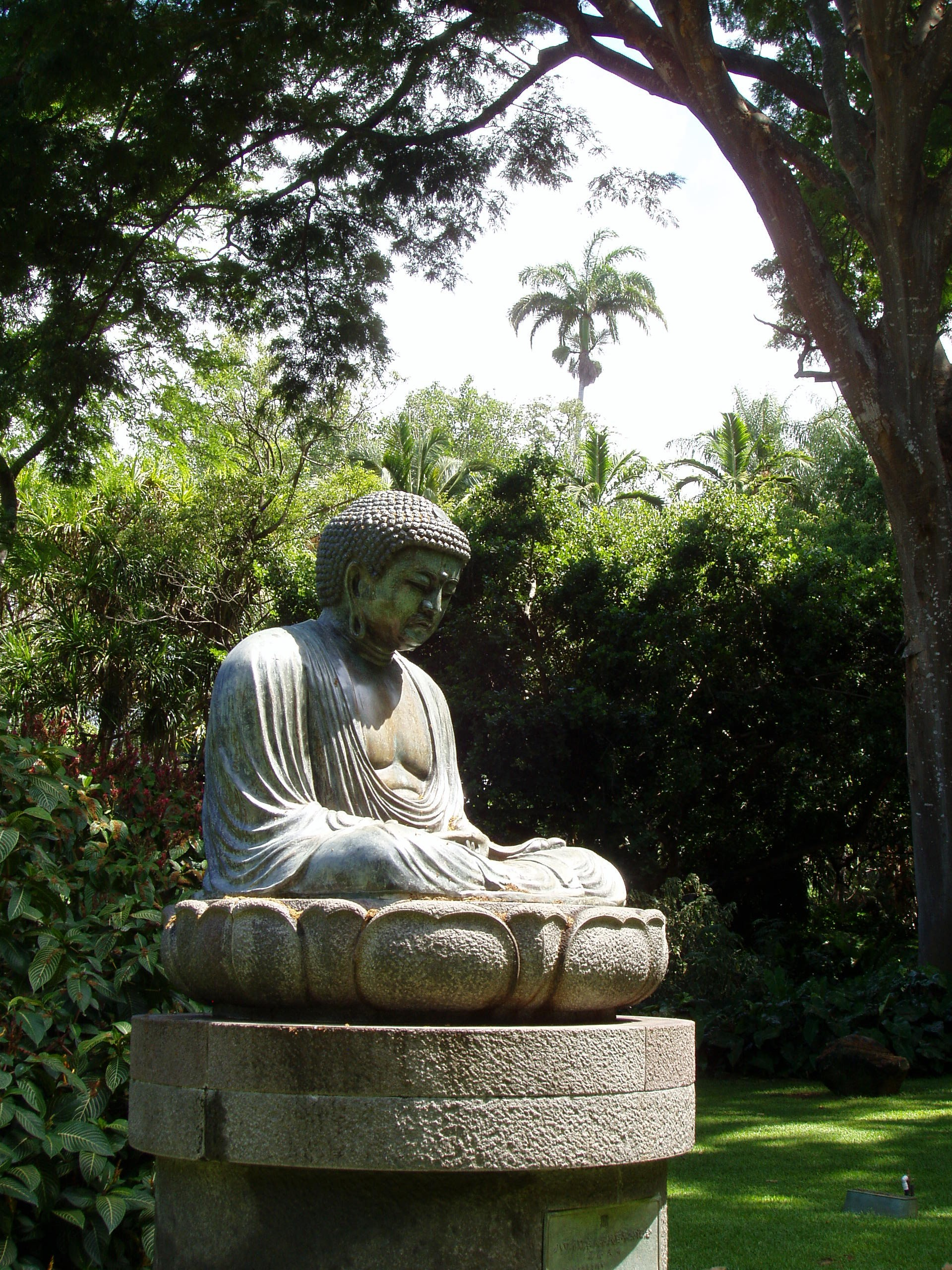 Foster Botanical Garden (Daibutsu) - Honolulu, Hawaii, USA. According to the plaque on its base, this replica of the Great Buddha of Kamakura was dedicated in 1968 to commemorate the centennial of Japanese immigration to Hawaii.